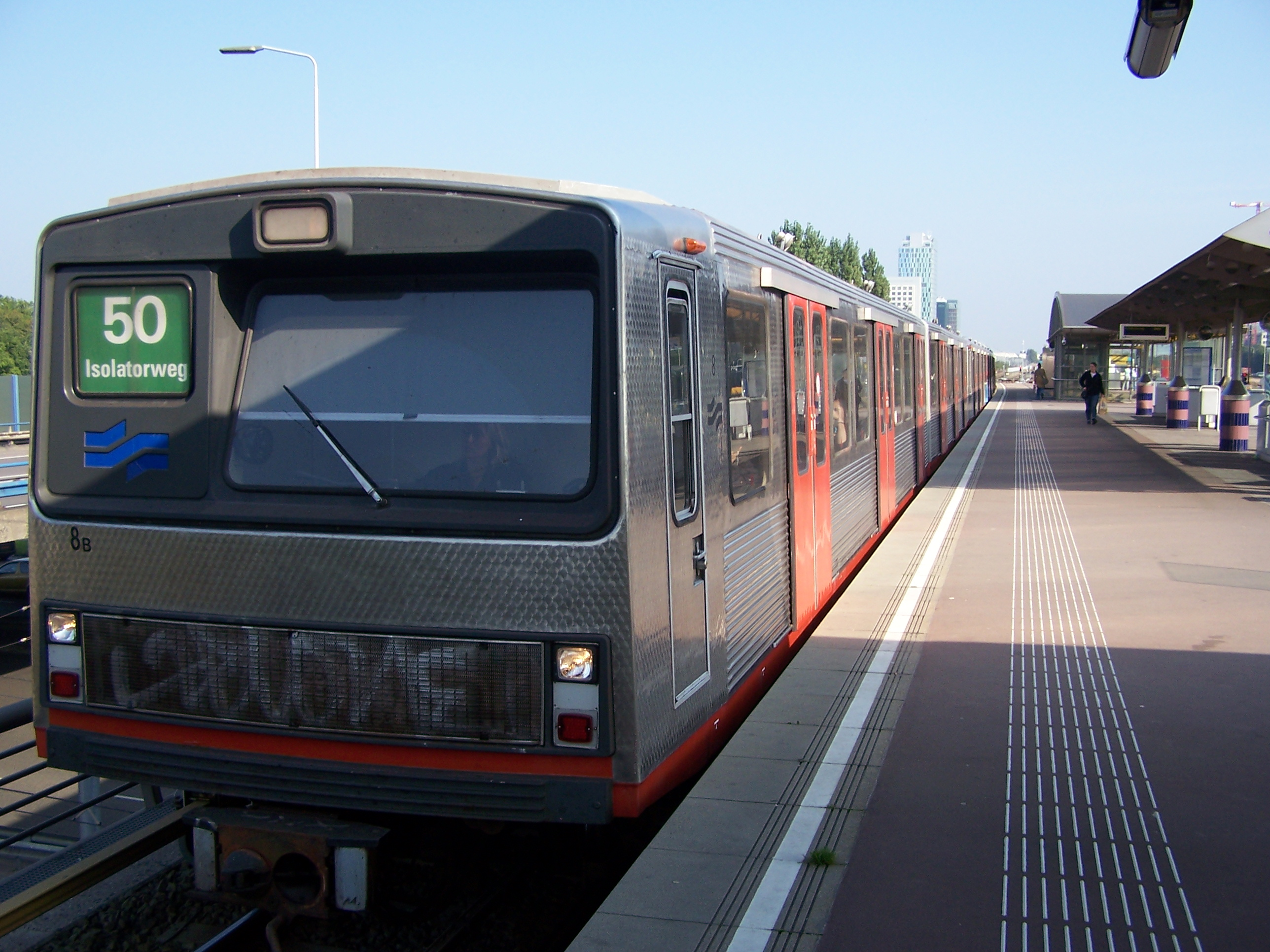 This picture shows the Amsterdam metro station Amstelveenseweg in the Netherlands. Author:Mig de Jong, september 2005